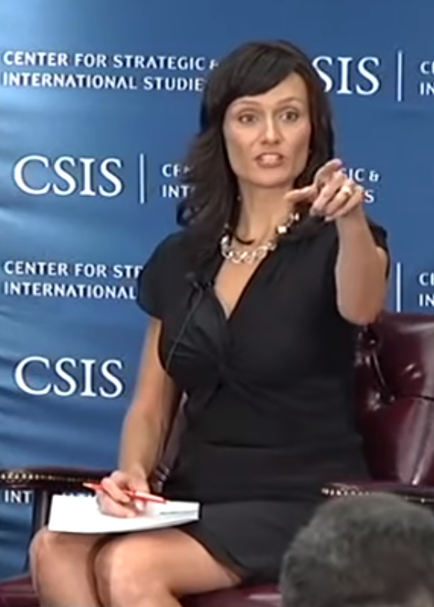 Book Discussion: "Treasury's War" with author Juan Zarate Featuring a discussion with author Juan C. Zarate Senior Advisor, CSIS Former Deputy Assistant to the President and Deputy National Security Advisor Former Assistant Secretary, U.S. Department Treasury @JCZarate1 Moderated by Rachel Martin Host, Weekend Edition Sunday, NPR @rachelnpr Wednesday, September 11th, 5:00 p.m. - 6:30 p.m. B1 Conference Room CSIS 1800 K Street, NW, Washington, DC 20006 Light refreshments will be served from 5:00 - 5:30 p.m. Discussion will begin at 5:30 p.m. Juan Zarate's book, Treasury's War: The Unleashing of a New Era of Financial Warfare, will be available for purchase. "Mr. Zarate, makes a persuasive case that a series of financial weapons developed after 9/11, and used mostly by the Treasury Department, have given the United States opportunities to weaken terrorists and rogue states as never before. He develops that argument by tracing Treasury's aggressive actions against various American foes over the last decade, whether Al Qaeda, North Korea, Iran, Libya or Saddam Hussein's Iraq." From New York Times, 'Off the Shelf' Juan Zarate is a Senior advisor at CSIS, the senior national security analyst for CBS News, and a visiting lecturer of law at Harvard Law School. He served as deputy assistant to the president and deputy national security advisor for combating terrorism and the first ever assistant secretary of the Treasury for terrorist financing and financial crimes. Programs TRANSNATIONAL THREATS PROJECT